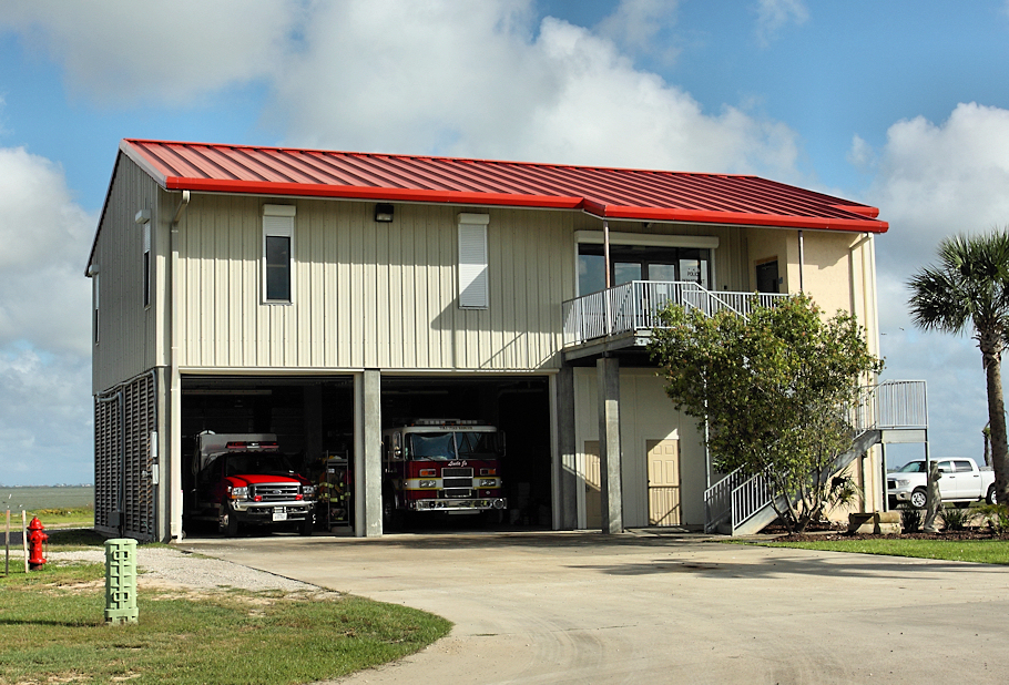 Police & Volunteer Fire Department headquarters. Tiki Island, Texas, USA